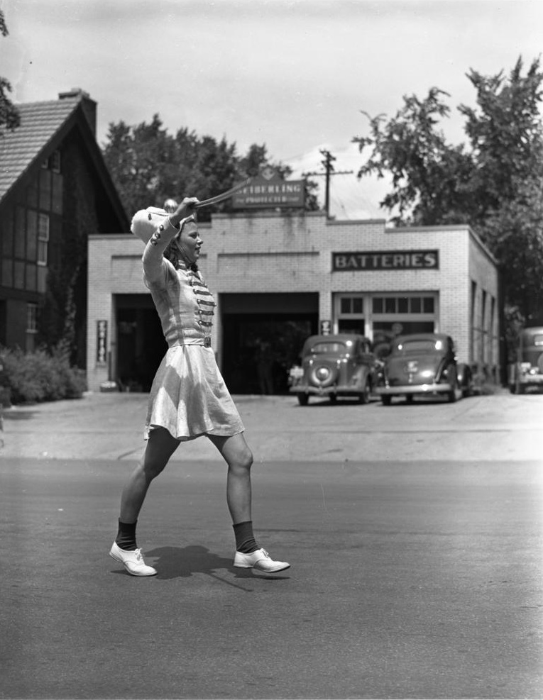 Baton-twirling bobby-soxer in the Parker & Watts Circus Parade on East Huron, Ann Arbor, Michigan, July 8, 1939.